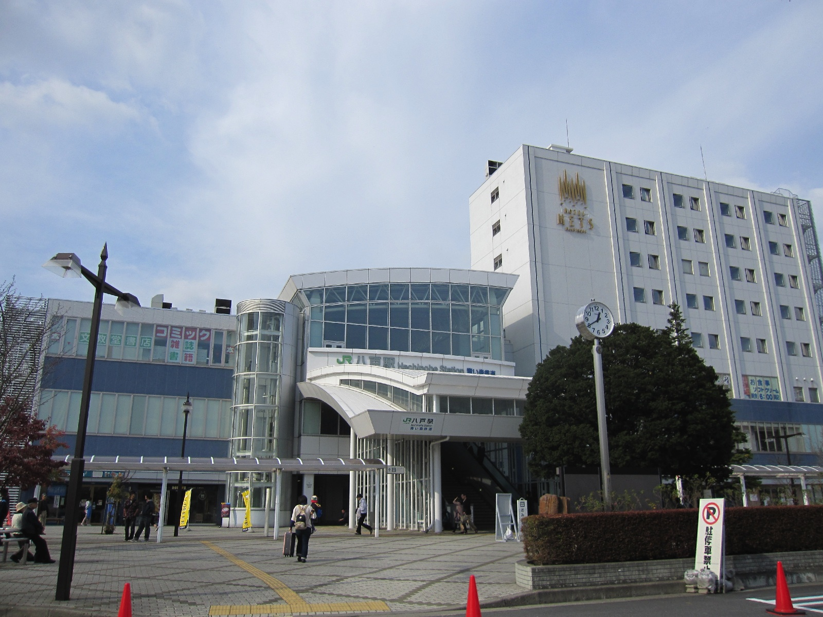 Hachinohe station 20111029